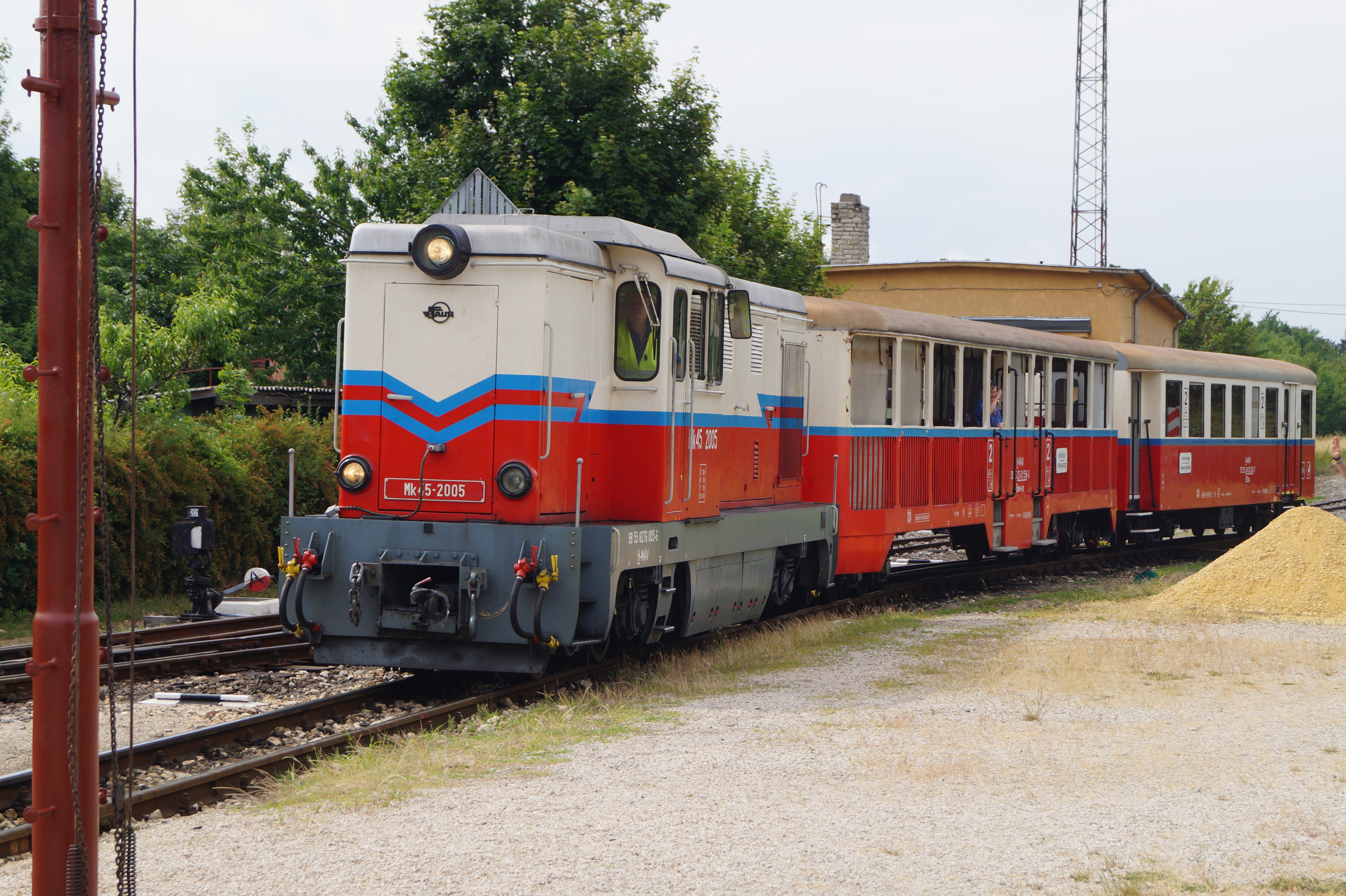 Diesel locomotive Mk45-2005 at the Children's Railway in Budapest